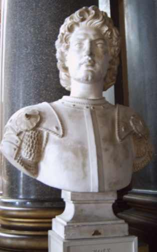 Gaston de Foix-Nemours, battles gallery, Versailles castle, France